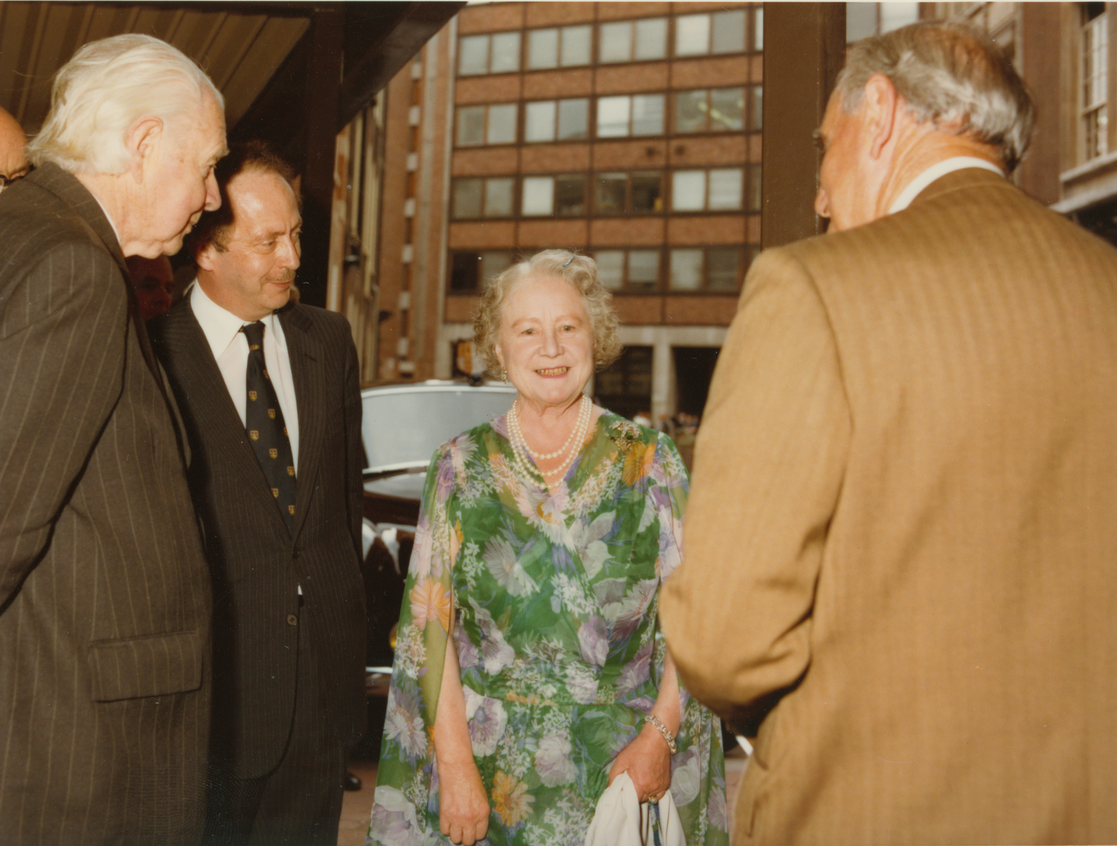 Left to right: Lord Robbins, Ralf Dahrendorf, Queen Mother, Huw Wheldon IMAGELIBRARY/367 Persistent URL